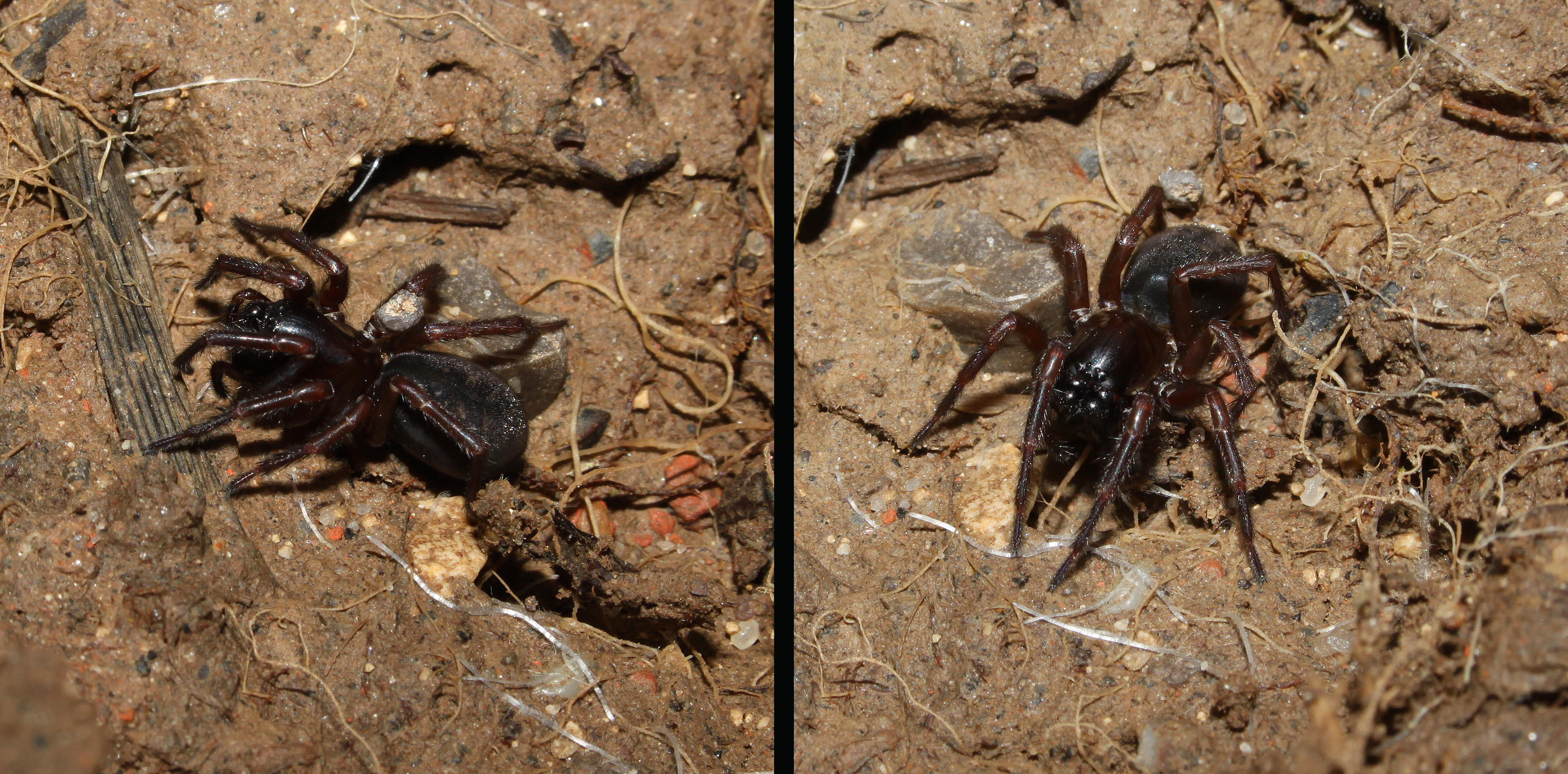 Family: Amaurobiidae, Location: Southern Germany, Ulm, Ringingen